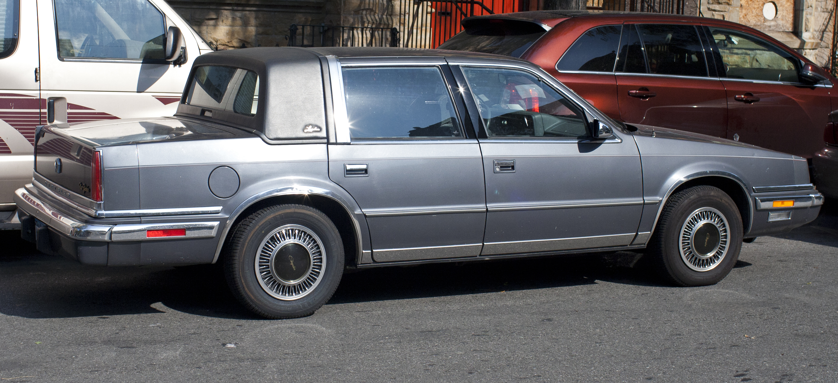 1990 Chrysler New Yorker Landau in Harlem